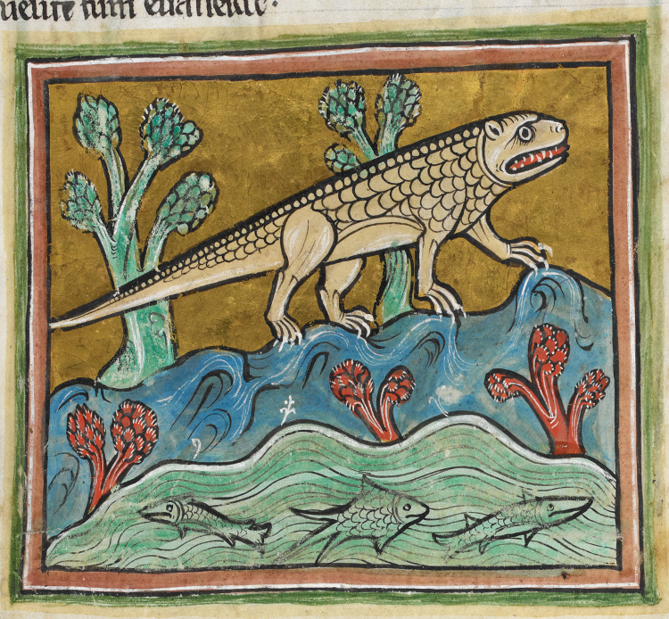 Illustration of a crocodile; detail of a miniature from the Rochester Bestiary, BL Royal 12 F xiii, f. 24r. Held and digitised by the British Library.